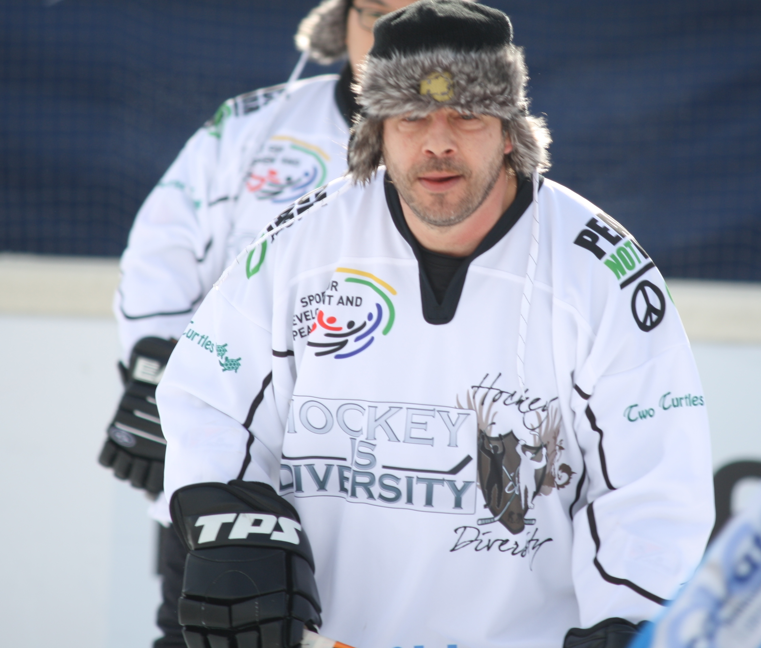 Andreas Bayless, guitar player from the Band "Söhne Mannheims" serves as Hockey is Diversity-Ambassador